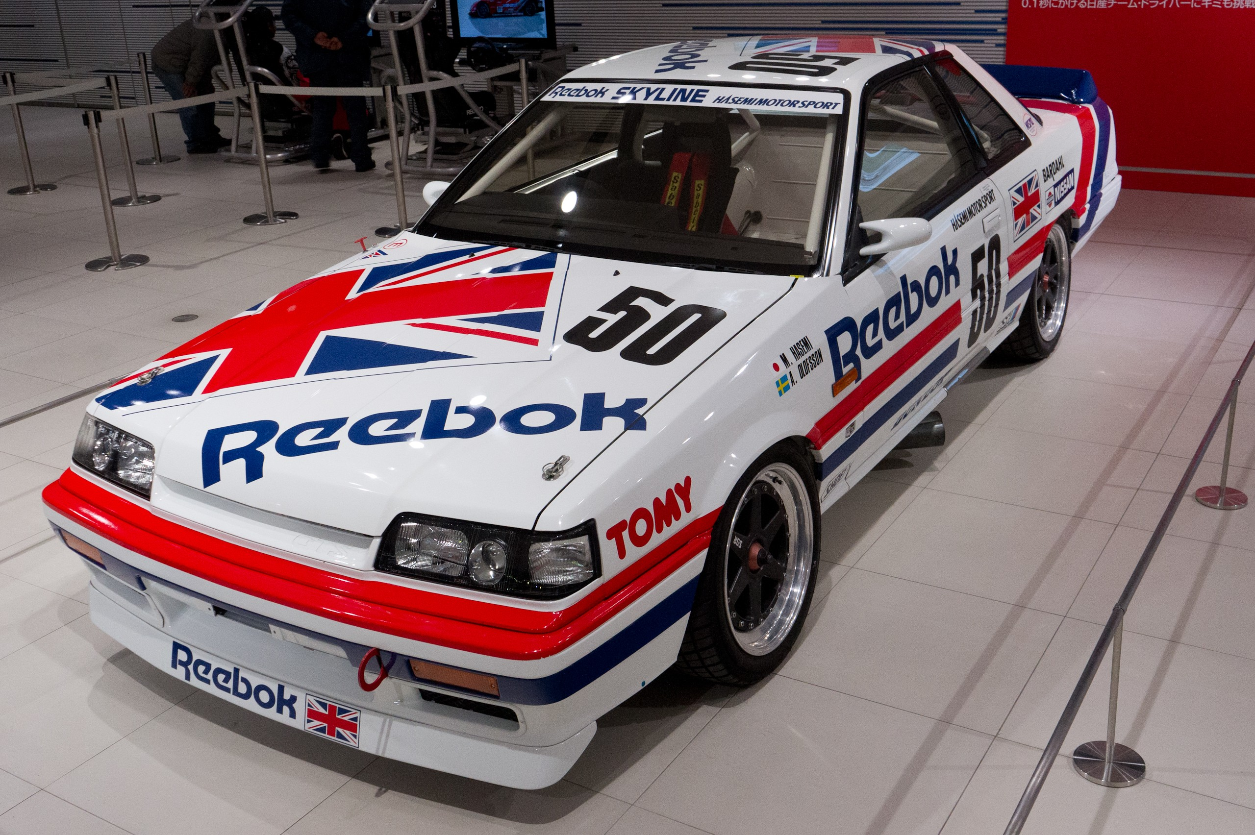 1989 Nissan Skyline GTS-R (KHR31) for the Japanese Touring Car Championship (Group A)